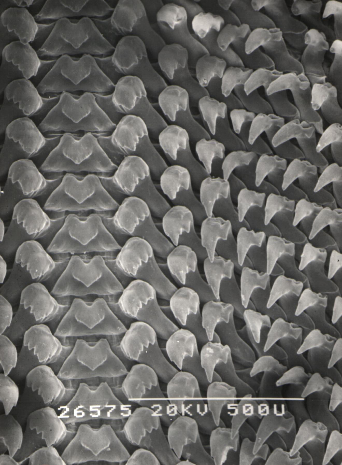 radula of Aplysia juliana